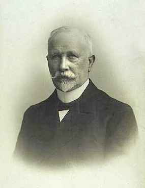 Lemming Emil Valentinus Vett (1843-1911), Danish industrialist